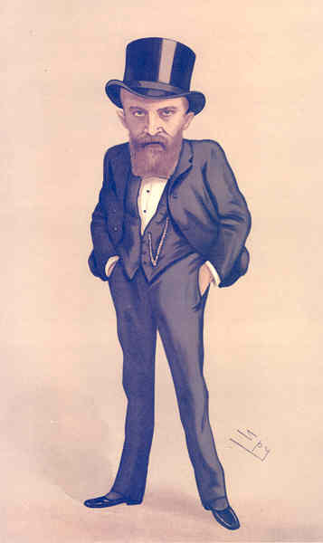 Caricature of Thomas Wallace Russell MP. Caption read "loyal and patriotic".